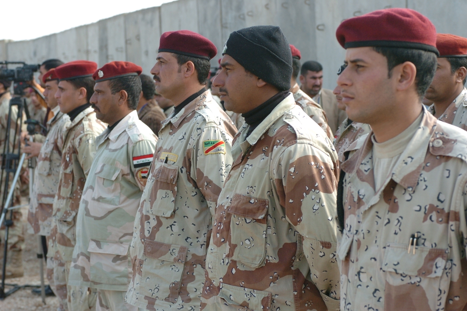 The new face of Iraqi leadership in the Iraqi Army noncommissioned officer corps is shown in the Jan. 28-graduating class from the Task Force Marne NCO Academy on Forward Operating Base Kalsu. The NCOs are the first to complete the two-week course, which instructs Iraqi NCOs on leadership and soldier skills necessary to mold their units into effective fighting forces. (Original caption)